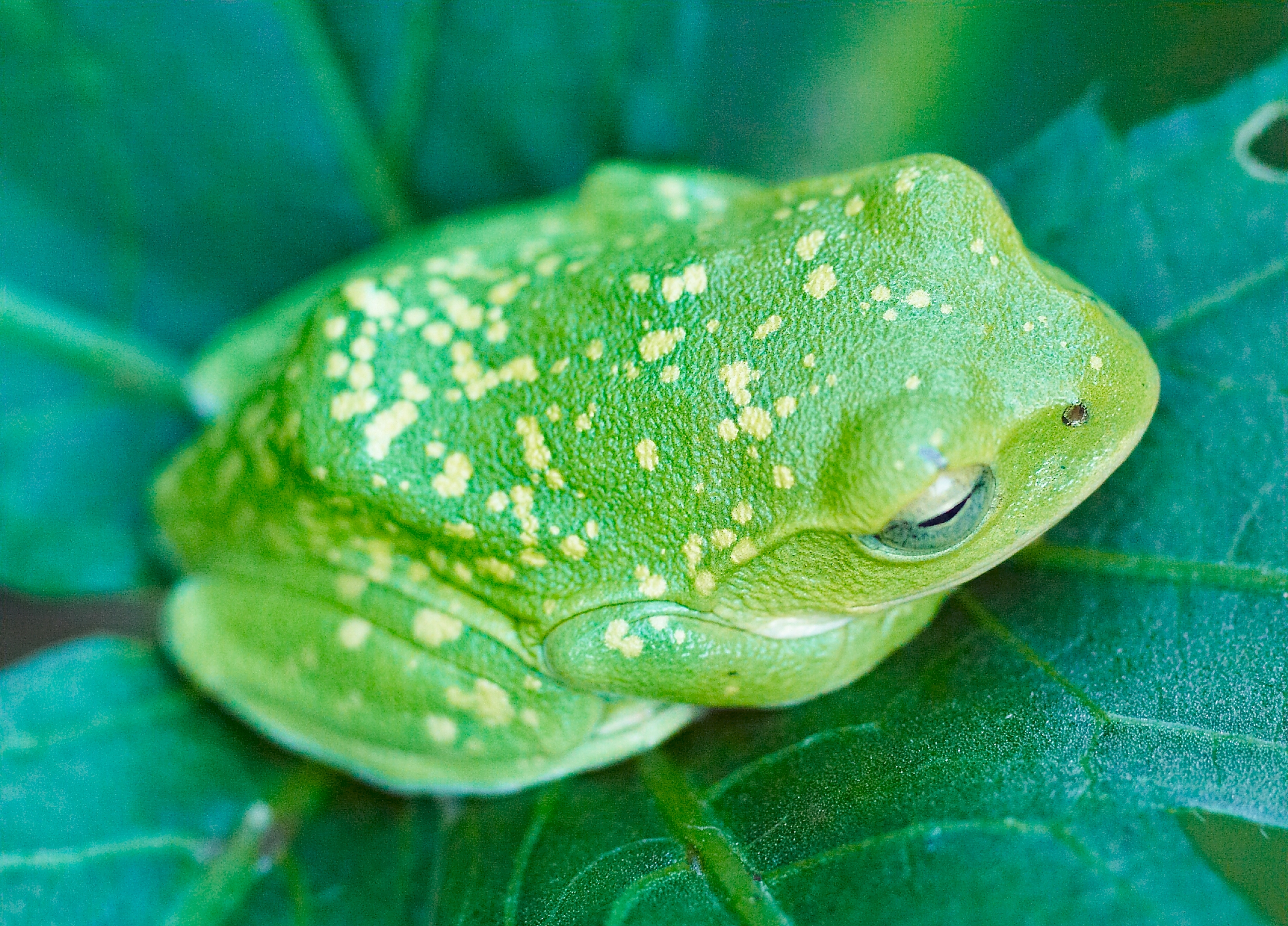 Rhacophorus schlegelii Now in Polypedates?